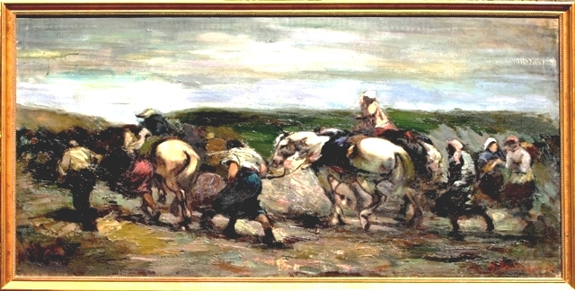 Migration of Armenians